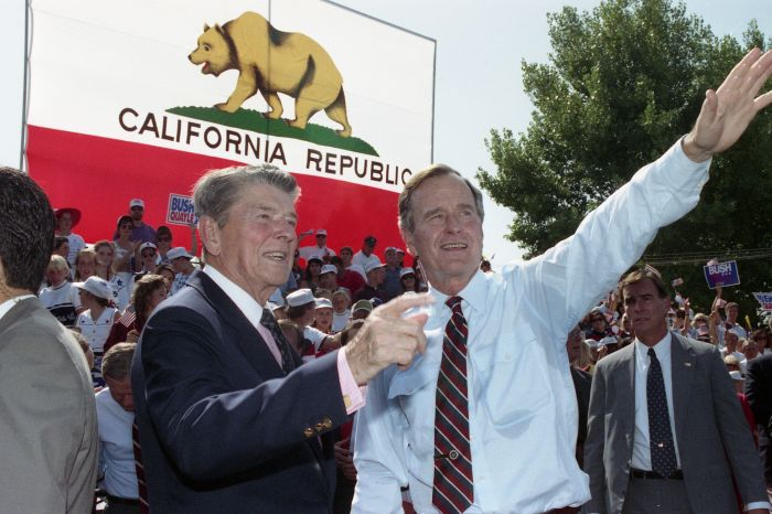 President Bush and former President Ronald Reagan campaign at the Orange County Welcome Rally in Anaheim, California.